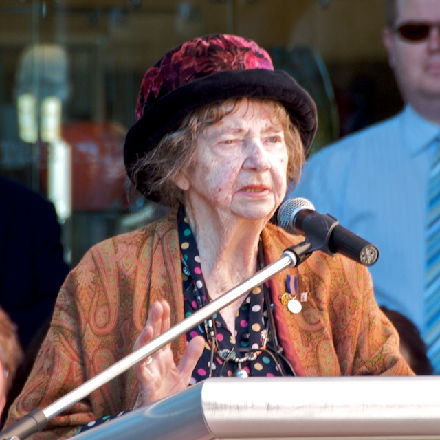 Margaret Olley at the Reopening of the Maitland Regional Art Gallery.